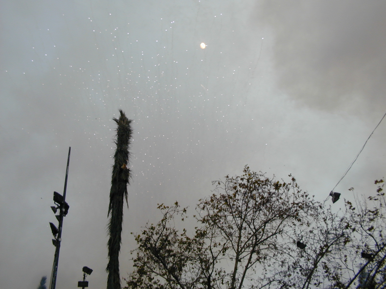 Aerial fireworks (carcases) in a mascletà in Valencia.